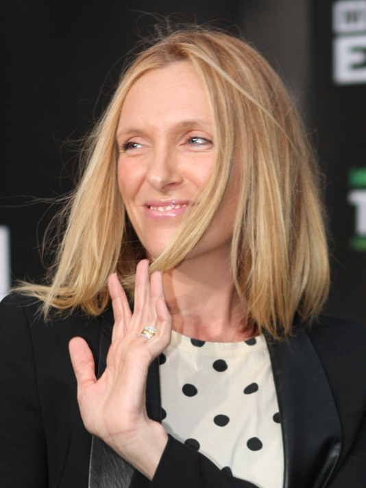 Tropfest Opens In Sydney, Australia - a celebration of 20 years of the iconic short film festival. It's estimated that about 150,000 people saw the event live, with the Sydney leg taking place at The Domain, and the forecast of rain (which got heavier as the night went on) didn't appear to dip the crowd. Recognized as the largest short film festival in the world, Tropfest is also praised for "its enormous contribution to the development of the Australian film industry by providing unique platforms for emerging filmmakers through its events and initiatives, and new and expanded audiences for their work." Finalists... KITCHEN SINK DRAMA, THE UNUSUAL SUSPECTS, THE MISTAKE, RGB, PHOTO BOOTH, ONE THING, MY CONSTELLATION, MIN MIN, MATCHBOX BROTHERS, LEMONADE STAND, JACK & LILY, “I’M FREE TO BE ME”, HOW MANY MORE DOCTORS DOES IT TAKE TO CHANGE A LIGHTBULB?, BOO!, ALICE’S BABY Tropfest (Australia) Tropfest Eva Rinaldi Photography Flickr Eva Rinaldi Photography Music News Australia